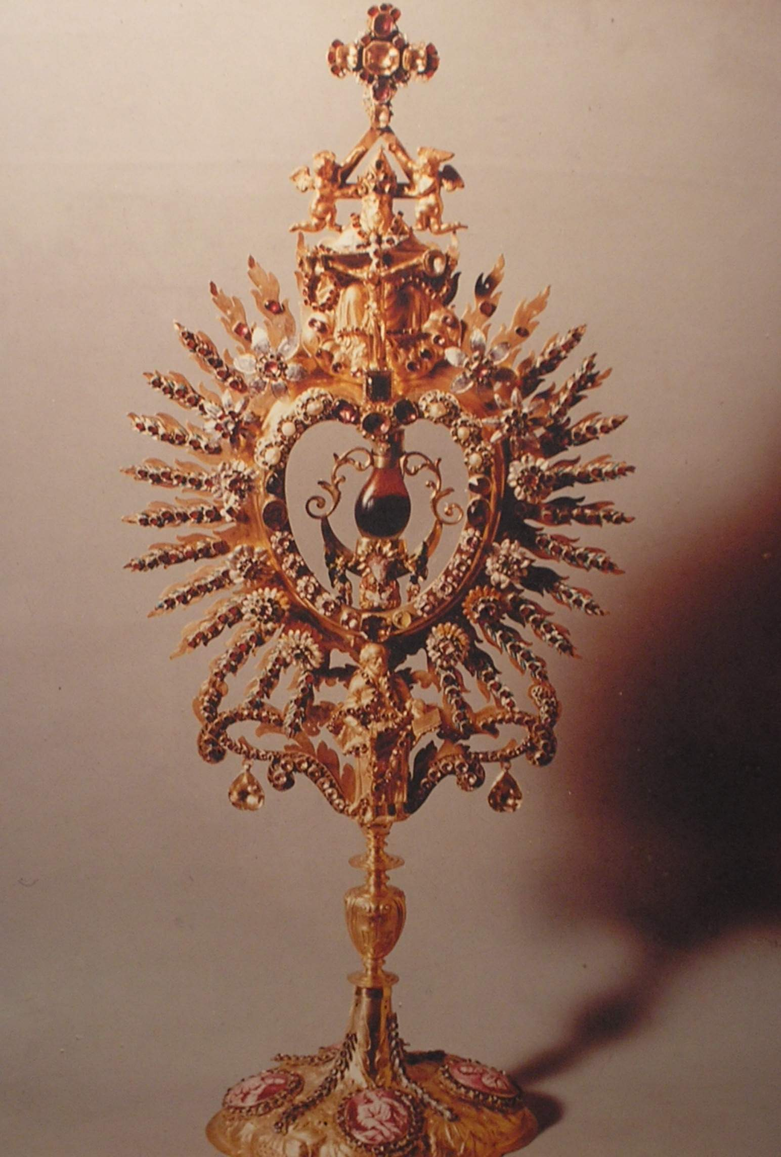 Reliquary of Christ's Blood, 18. century, made by Caspar Riss von Rissenfels from Augsburg